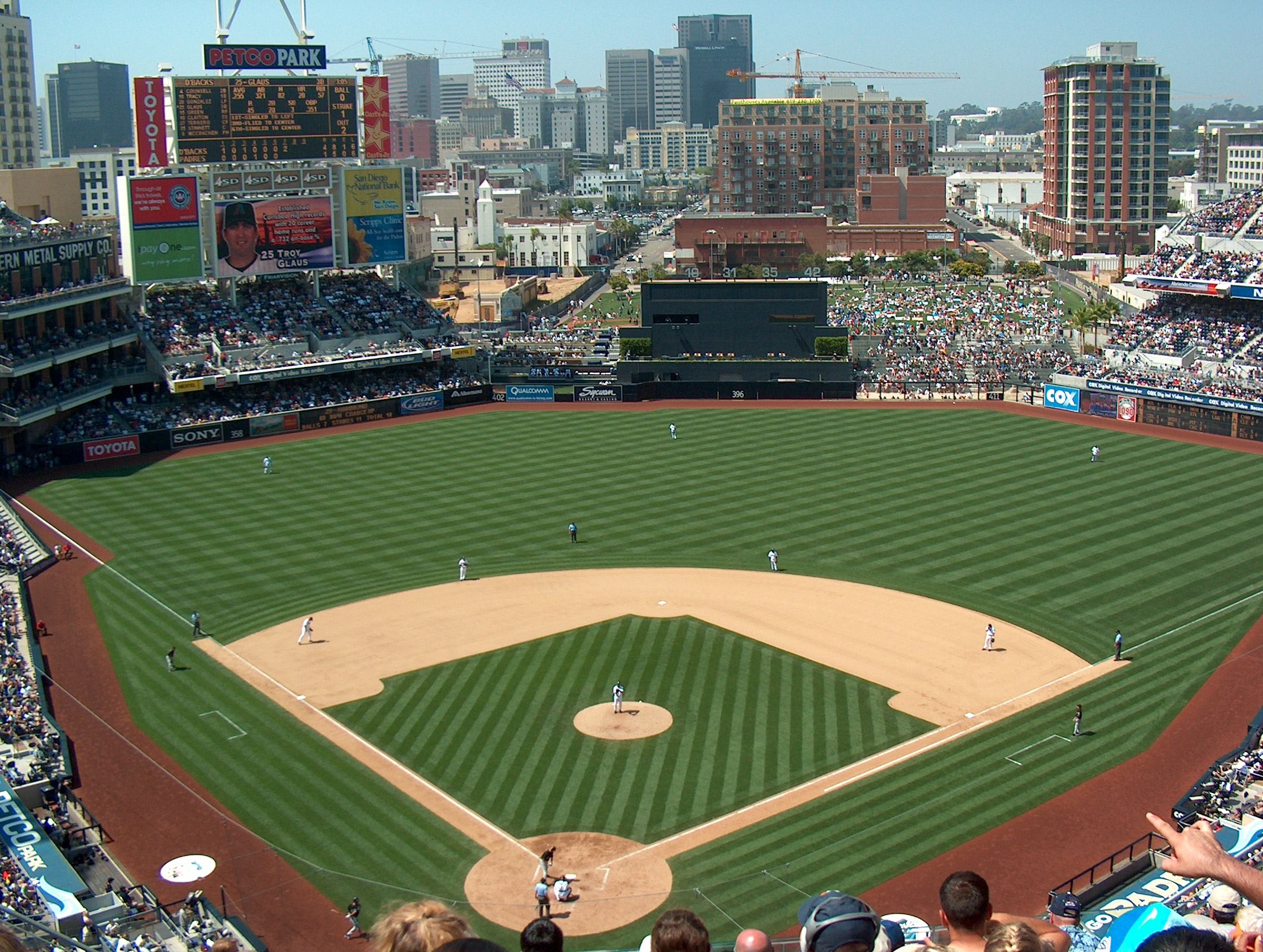 The interior of Petco Park with the San Diego skyline in the background. 23:10, 31 May 2006 . . Nehrams2020 . . 2272×1712 (1,265,718 bytes)